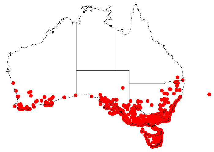 Pelargonium australe Occurrence data fromAVH downloaded 15 January 2019, from